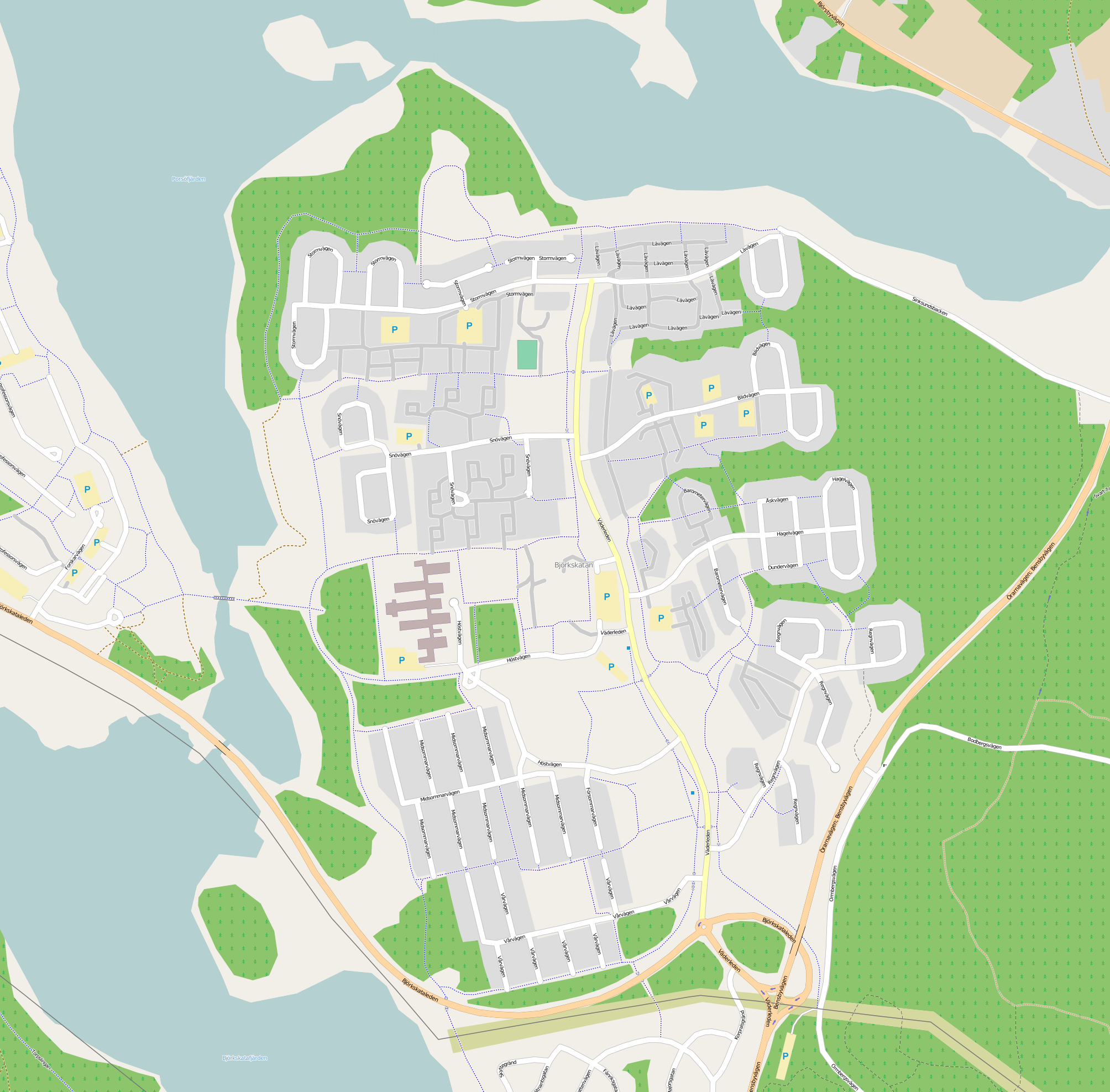 This map of Björkskatan was created from OpenStreetMap project data, collected by the community. This map may be incomplete, and may contain errors. Don't rely solely on it for navigation.